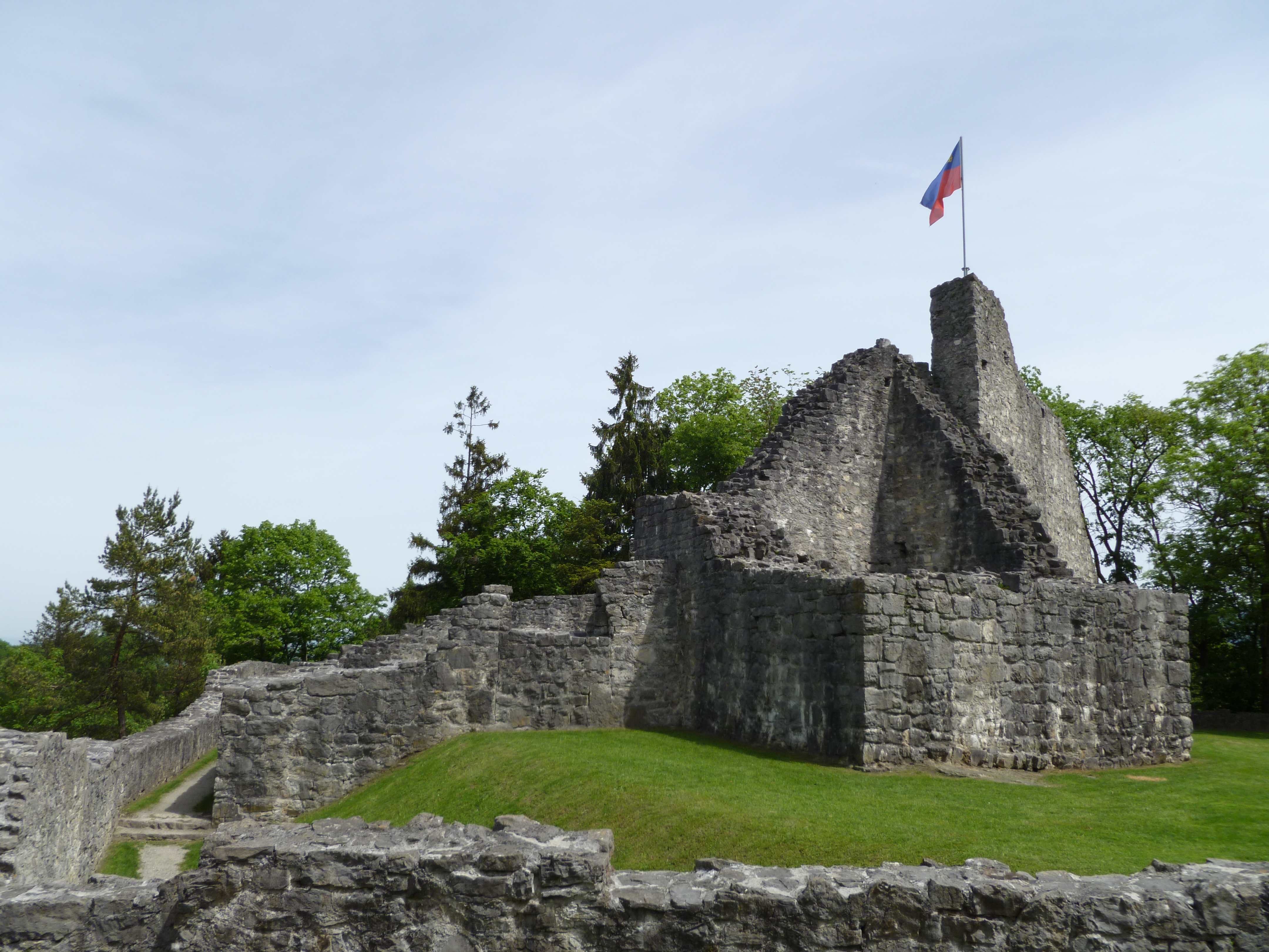 View of the castle ruins